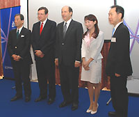 Kiyoshi Kurokawa, Chairman of the Health and Global Policy Institute, David Warren, Ambassador to Japan, John Roos, Ambassador to Japan, Agnes Chan, Goodwill Ambassador of the Japan Cancer Society and Soon-Taik Hwang, Minister, talked about "Clinical Trials in a Globalized Society -- Building an Effective Cancer Clinical Trials System" on May 25, 2010.